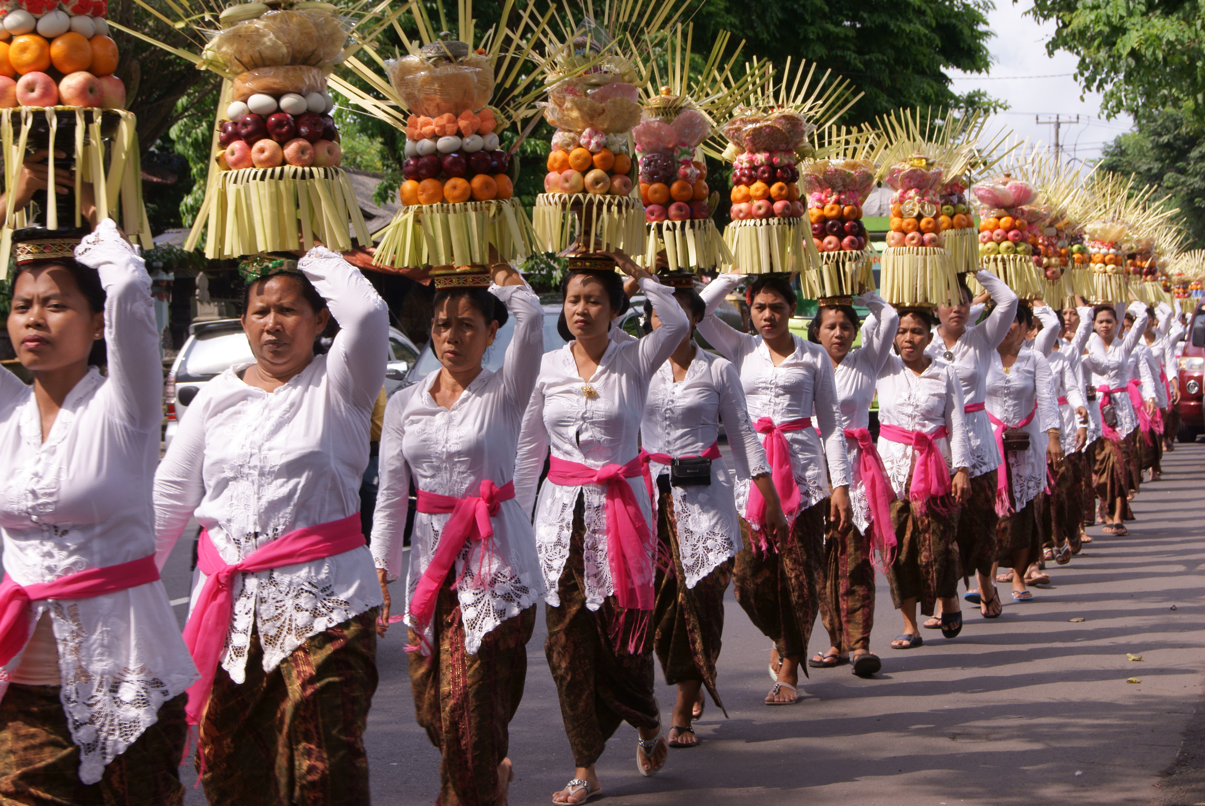 Odalan temple anniversaty procession. Balinese women dressed in traditional costume on their way to the temple.